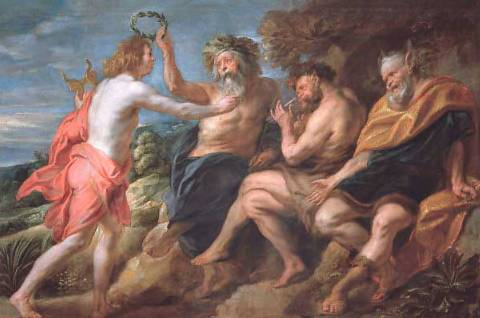 Tmolus declaring Apollo winner in musical competition with Pan (Ovid, Metamorphoses XI)